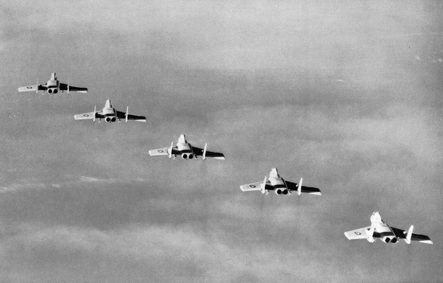 Five U.S. Navy Vought F7U-3M Cutlass from Attack Squadron VA-116 "Roadrunners" in flight. VA-116 was assigned to Air Task Group 2 (ATG-2) aboard the U.S. Navy aircraft carrier USS Hancock (CVA-19) for a deployment to the Western Pacific from 6 April to 18 September 1957.